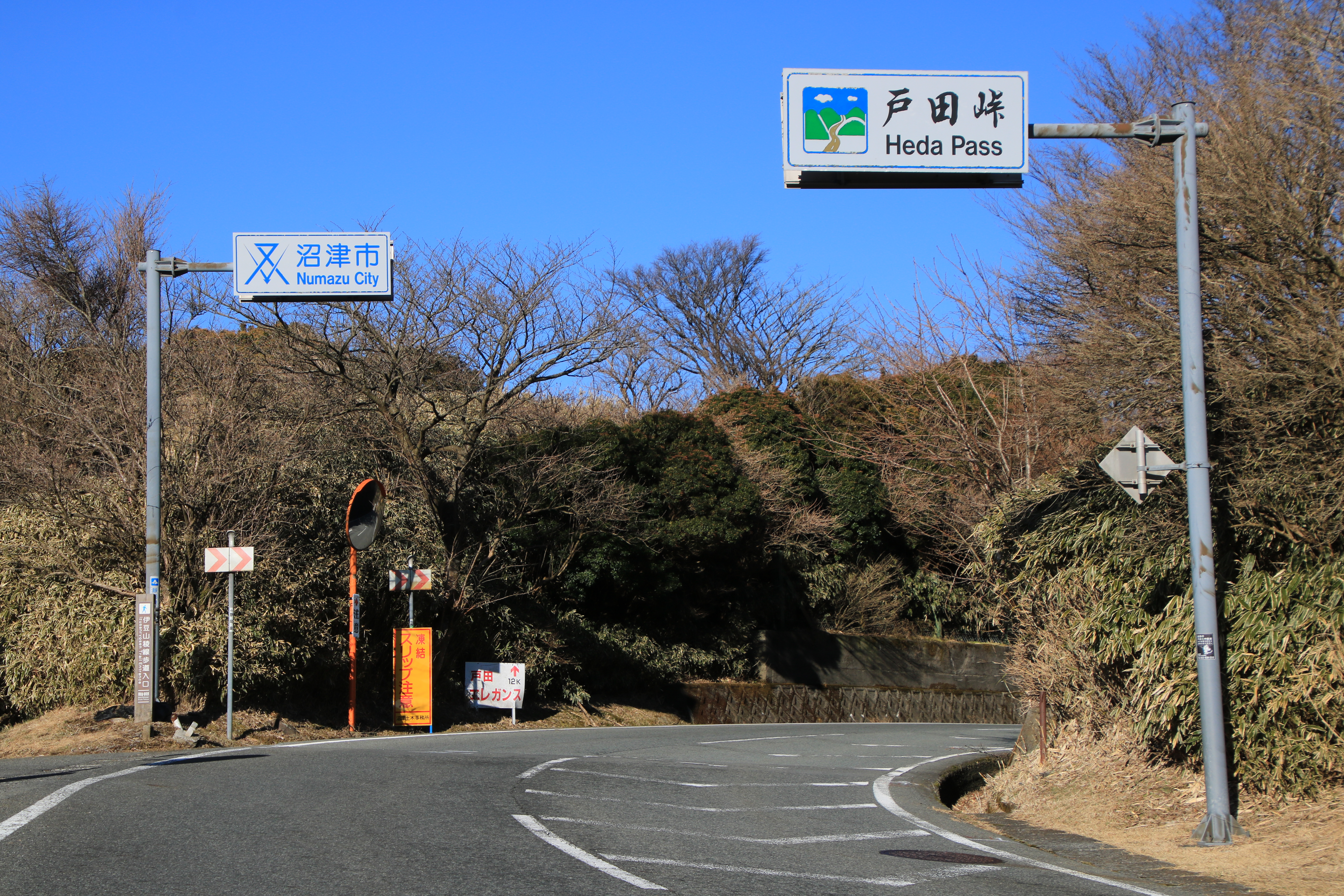 Heda Pass of Shizuoka Prefectural Road Route 18 in Izu and Numazu, Shizuoka prefecture, Japan.